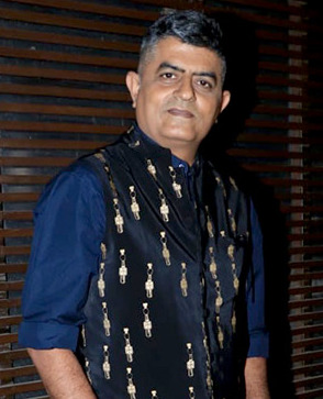 Gajraj Rao at success party of the film ‘Badhaai Ho’ at Estella in Juhu